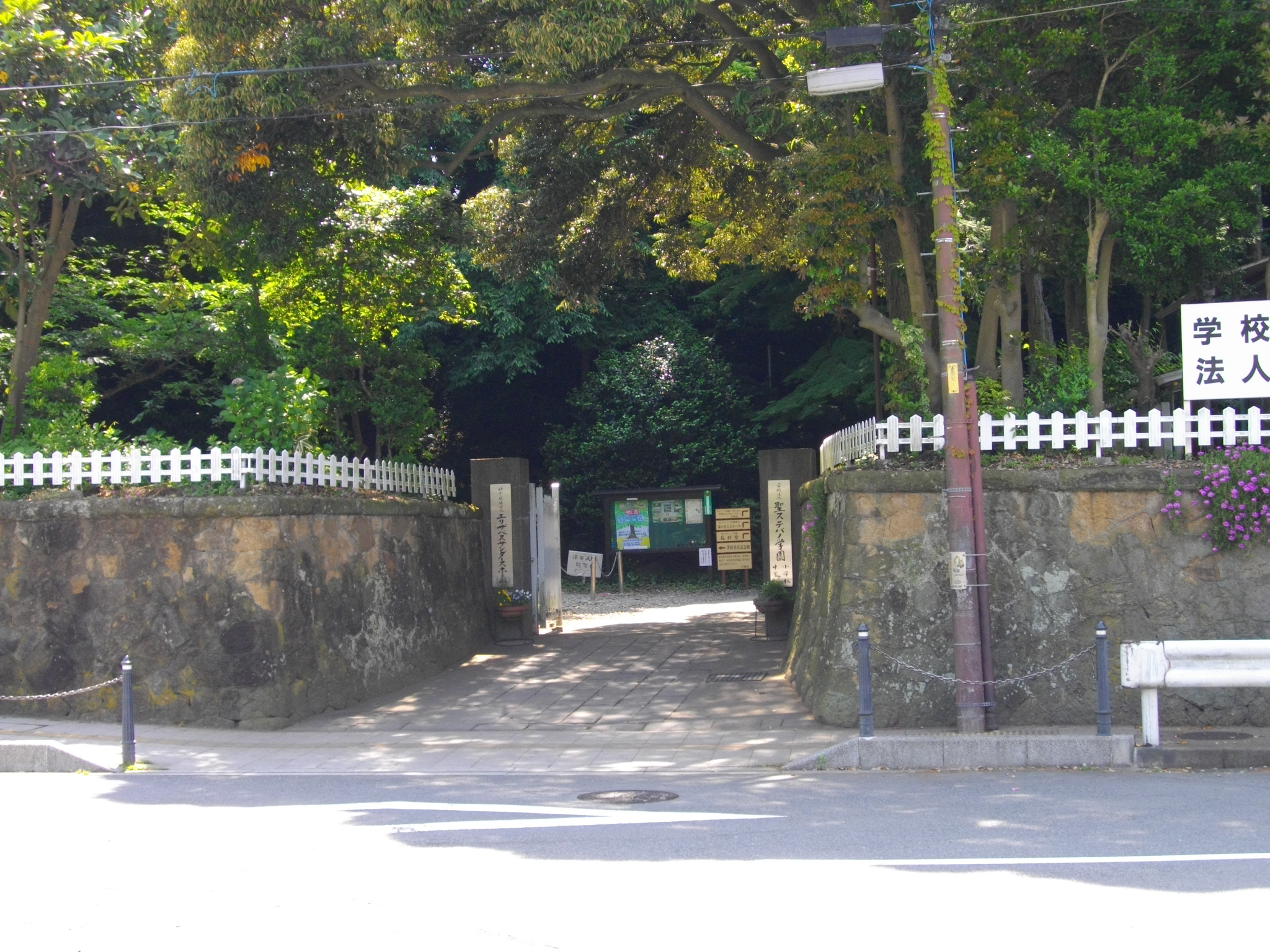 St. Stephen's School Gate